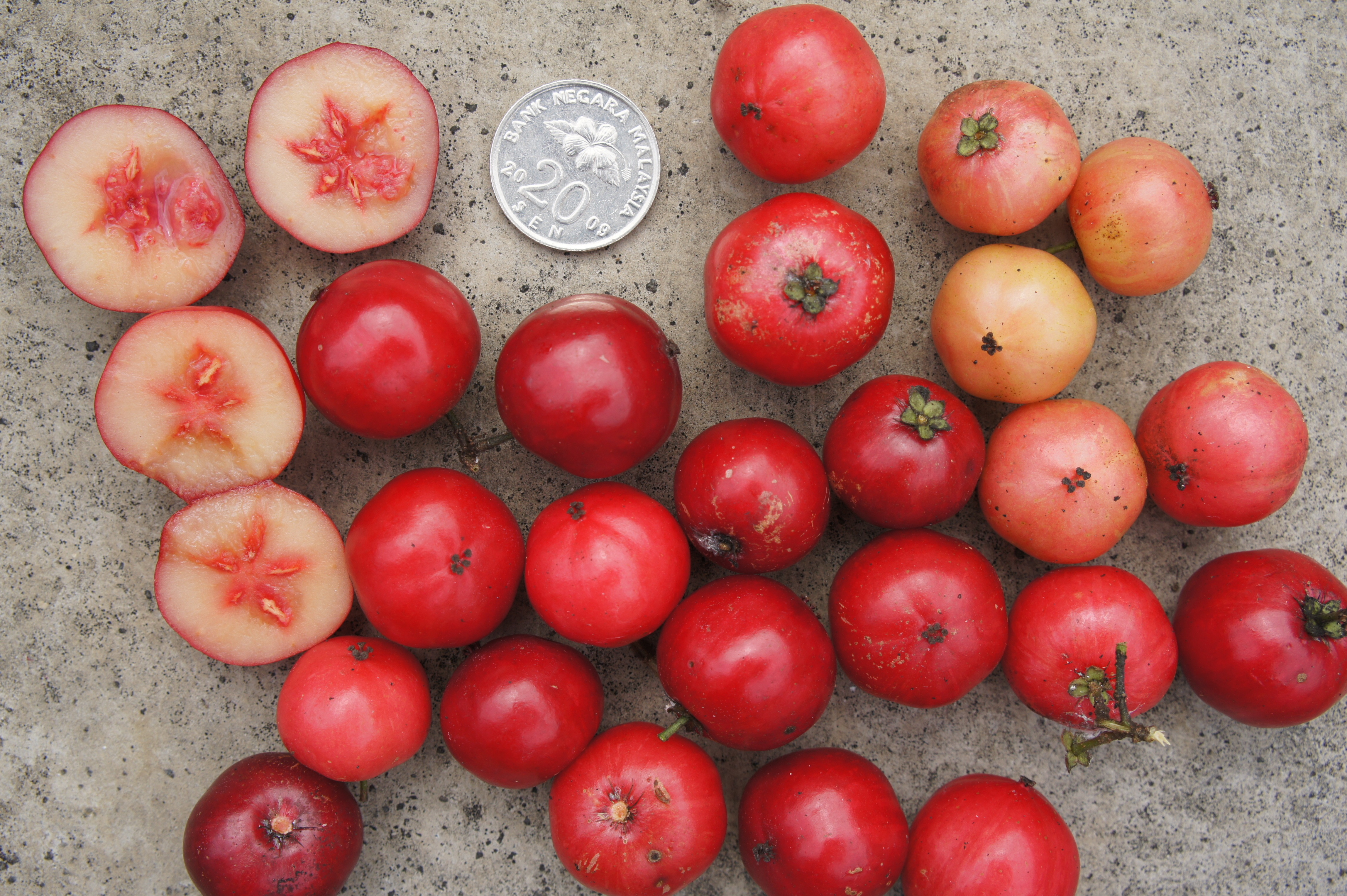 Flacourtia rukam compared with coin 24mm diameter